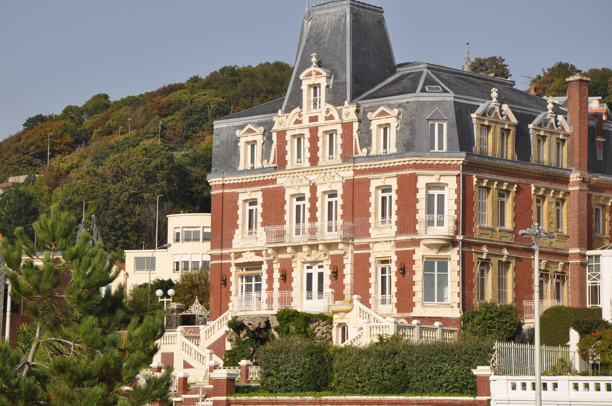 France, Normandy, Le Havre : house facing the sea. French writer Armand Salacrou lived here.